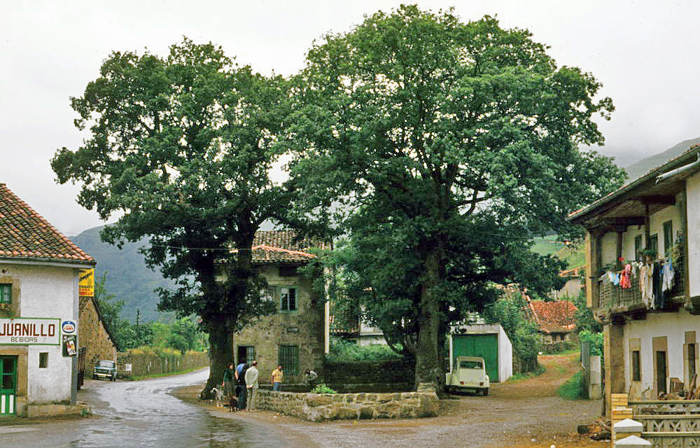 Bowling ground with two old oaks. Renedo, Cabuérniga, Cantabria, Spain